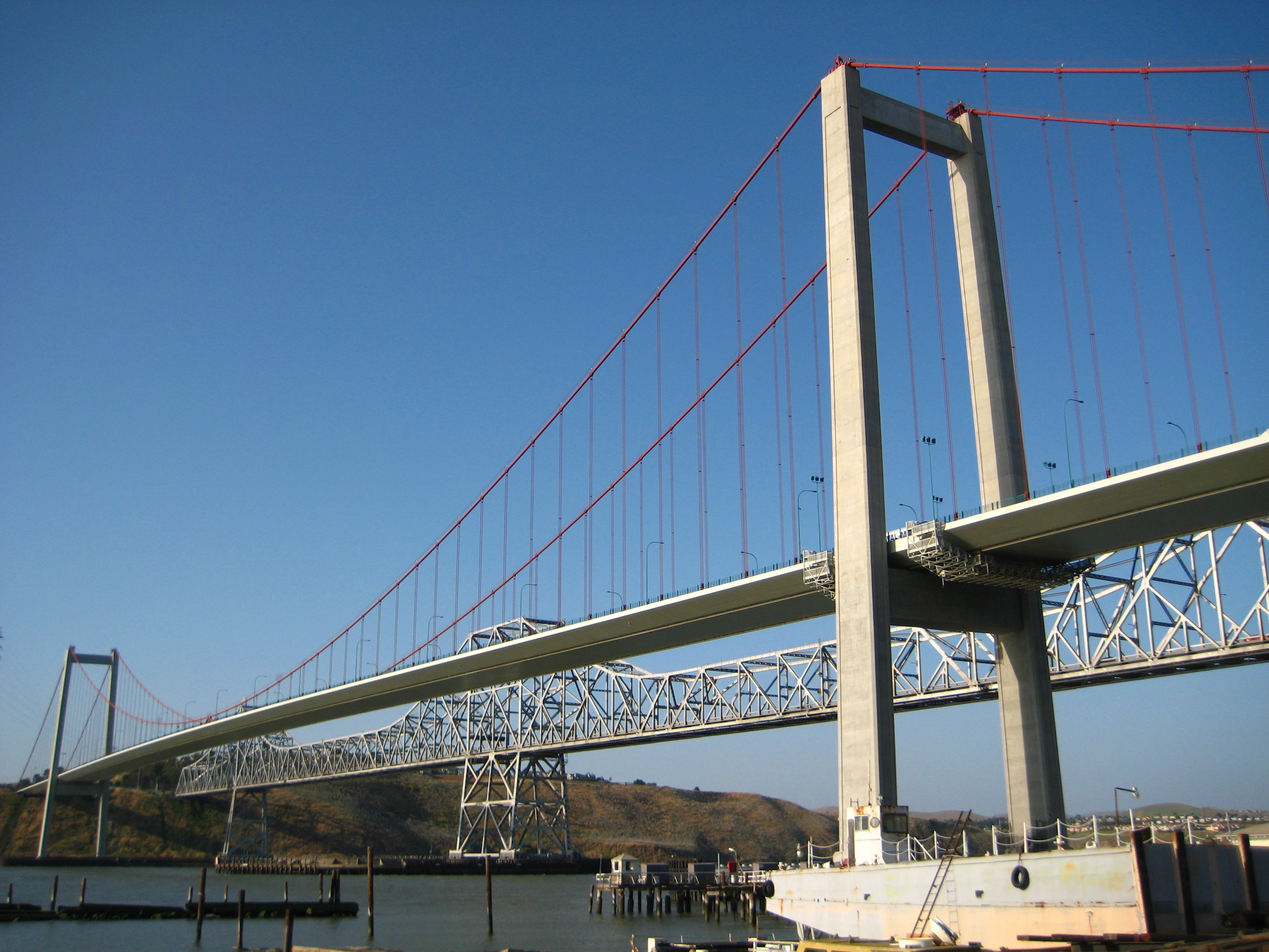 Carquinez Bridges cross the Carquinez Strait linking Vallejo to the north, with Crockett to the south in California